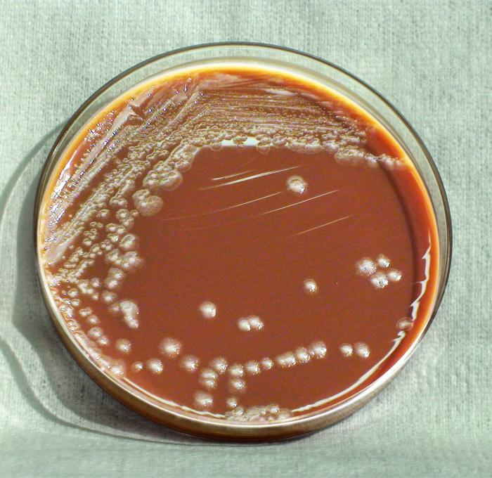 This photograph depicts the colonial morphology displayed by Gram-negative Yersinia pestis bacteria, which was grown on a medium of chocolate agar, for a 72 hour time period, at a temperature of 25°C. Note that PHIL 12470 displays a closer view of these Y. pestis bacterial colonies. See also PHIL 12468 for the appearance of Y. pestis colonies grown on the same medium, and at the same time temperature, but for a lesser time period (48hr); PHIL 12471 displaying growth on the same medium, but for a lesser time period (48hr), and at a greater temperature (37°C); PHIL 12472 displaying growth on the same medium, for the same amount of time, but at a greater temperature (37°C); PHIL 12473 displaying Y. pestis colonies grown on the same medium and temperature, but at one-third the time (24hr).